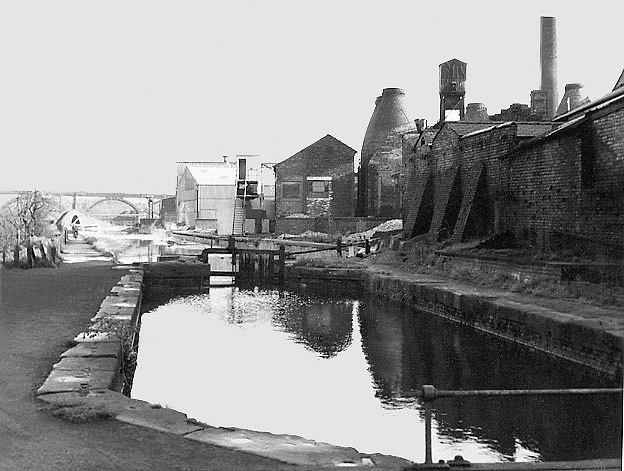 This image is looking East. Pilkington's is on the right. Fletcher's Canal is in the foreground and ends at the towpath bridge. Clifton Aqueduct is just to the left of the towpath bridge, which crosses the Manchester, Bolton and Bury Canal (which continues on underneath Clifton Viaduct which can be seen in the background).